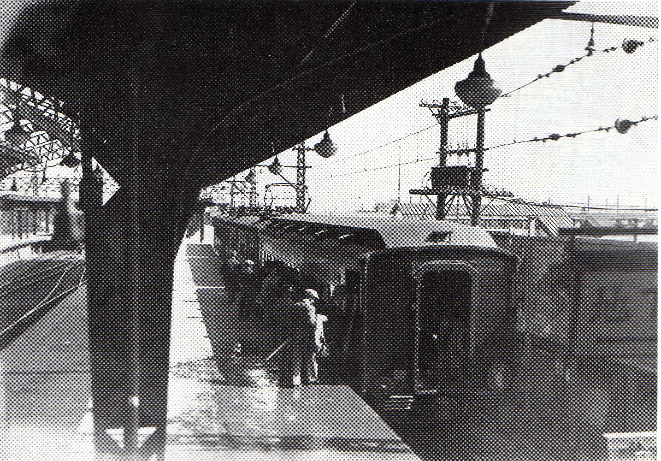 Platform of Hanwa-Tennoji station, Hanwa Electric Railway.